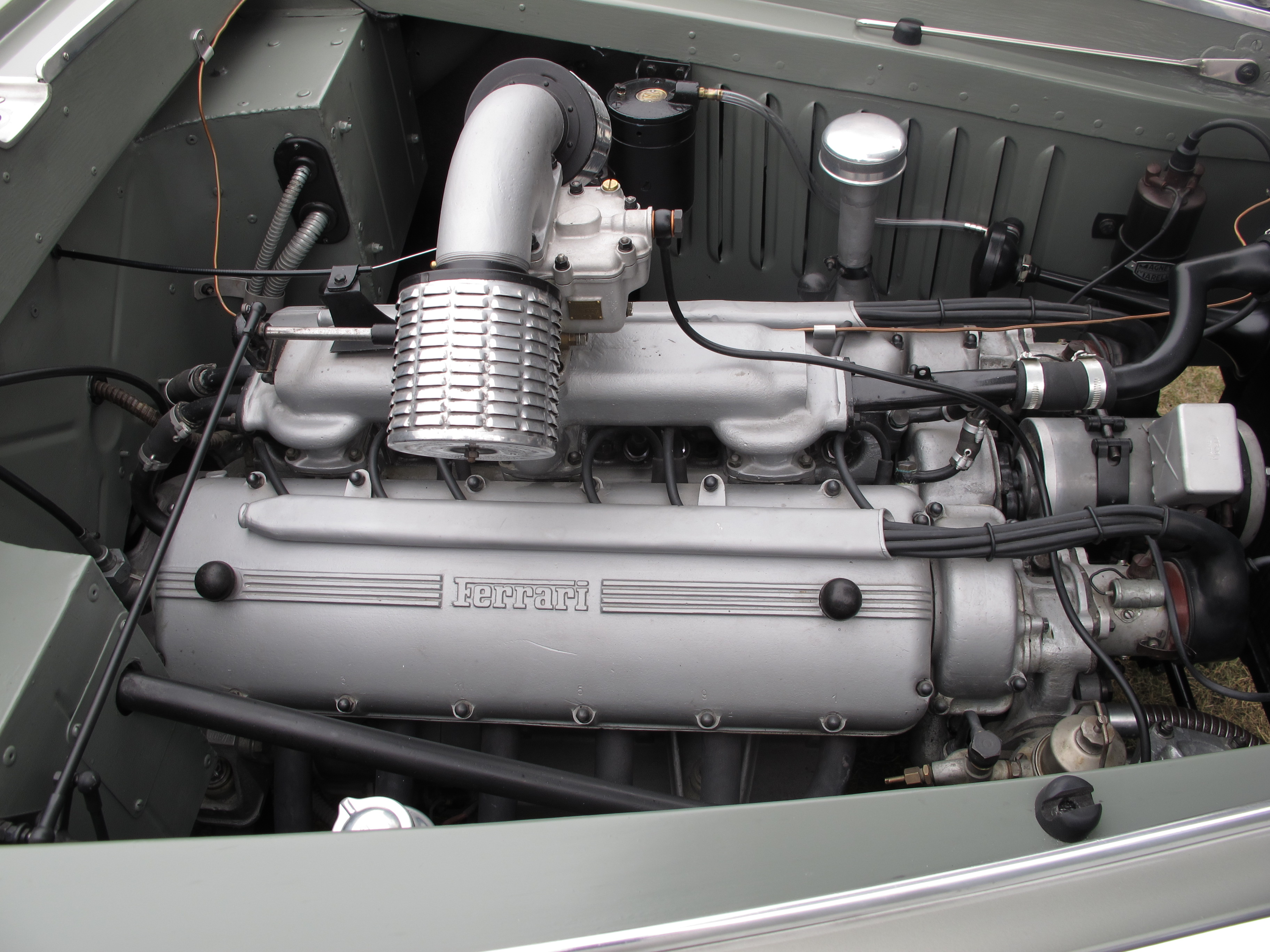 A Ferrari Colombo engine of the type used in the 166 Inter, 195 Inter & 212 Inter. Picture taken at Concorso Italiano 2016.